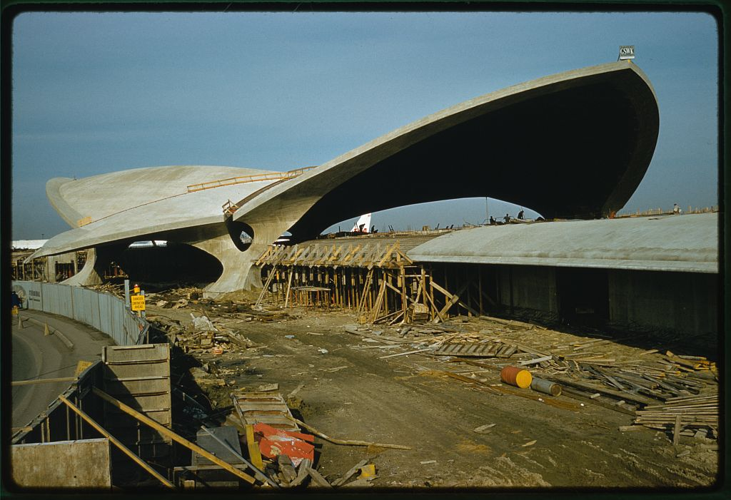 View showing the self-supporting thin-shell roof of the TWA Flight Center during construction